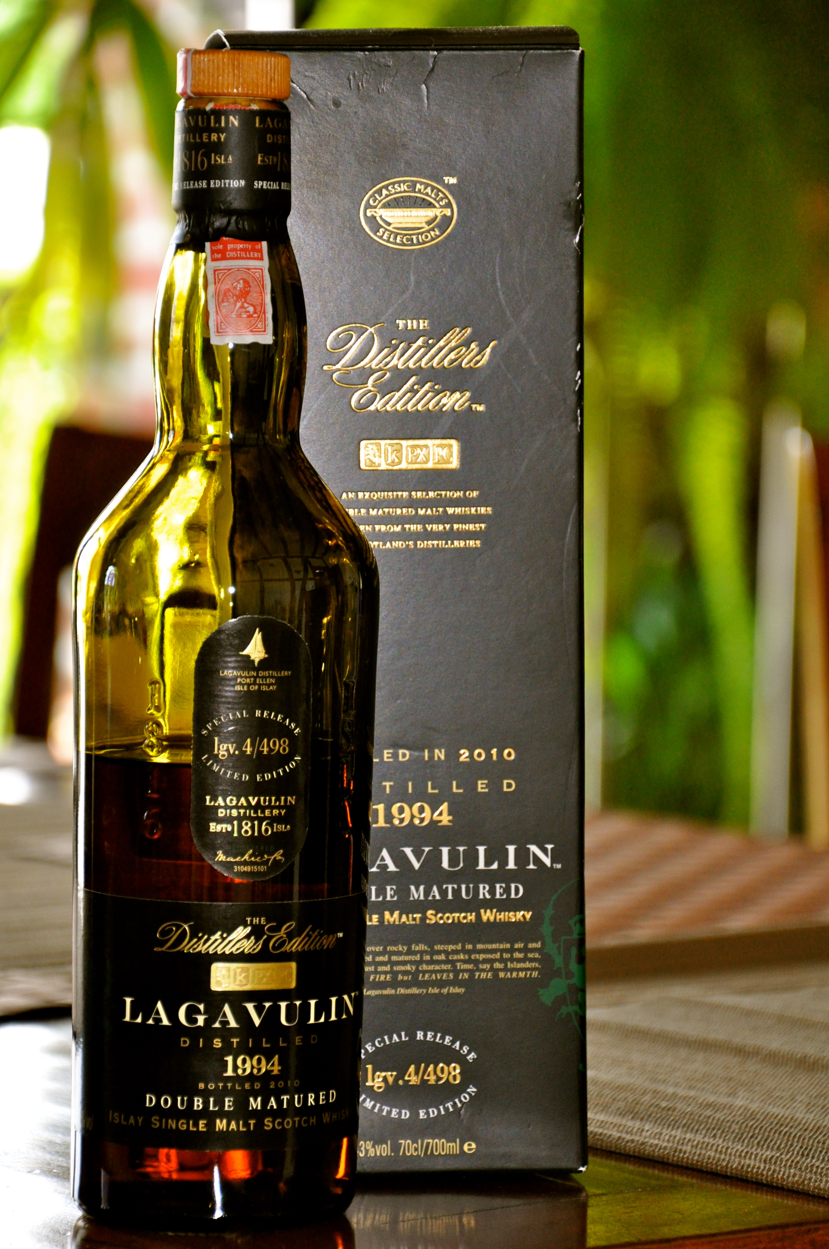 Bottle of Lagavulin Destillers Edition Whisky